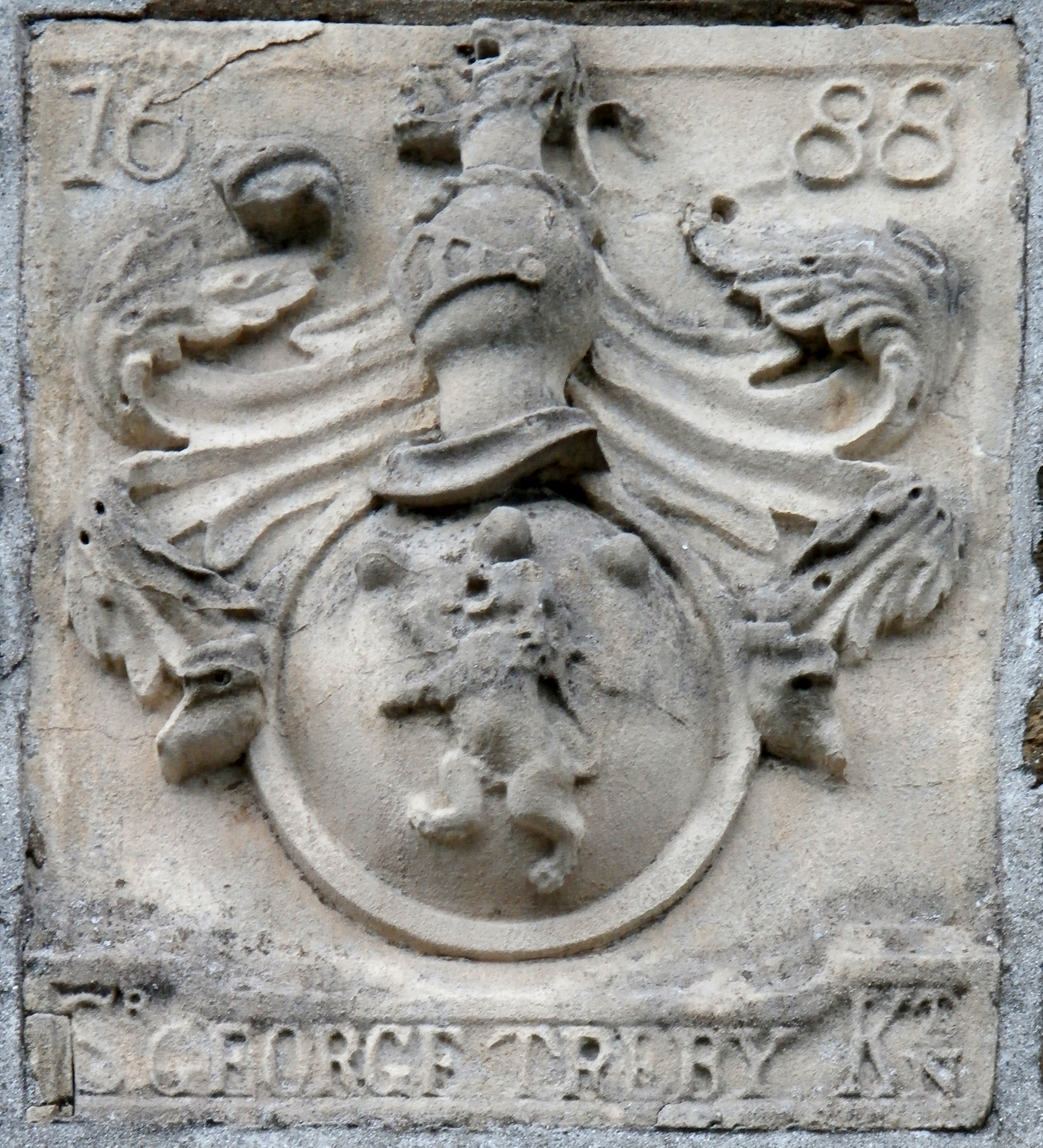 1688 stone tablet bearing the arms of Sir George Treby (d.1700) of Plympton House, Lord Chief Justice of the Common Pleas, affixed to facade of Plympton Guildhall, which (together with Richard Stroud of Newnham) he donated to the borough. (Pevsner, Nikolaus & Cherry, Bridget, The Buildings of England: Devon, London, 2004, p.684) Arms: Sable, a lion rampant argent in chief three bezants